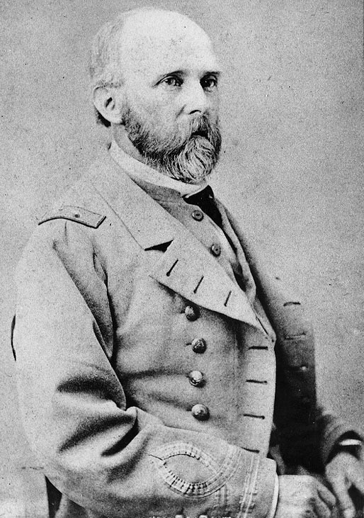 Commander Catesby ap R. Jones, CSNPhotographed in Confederate Navy Uniform, circa 1863-64.